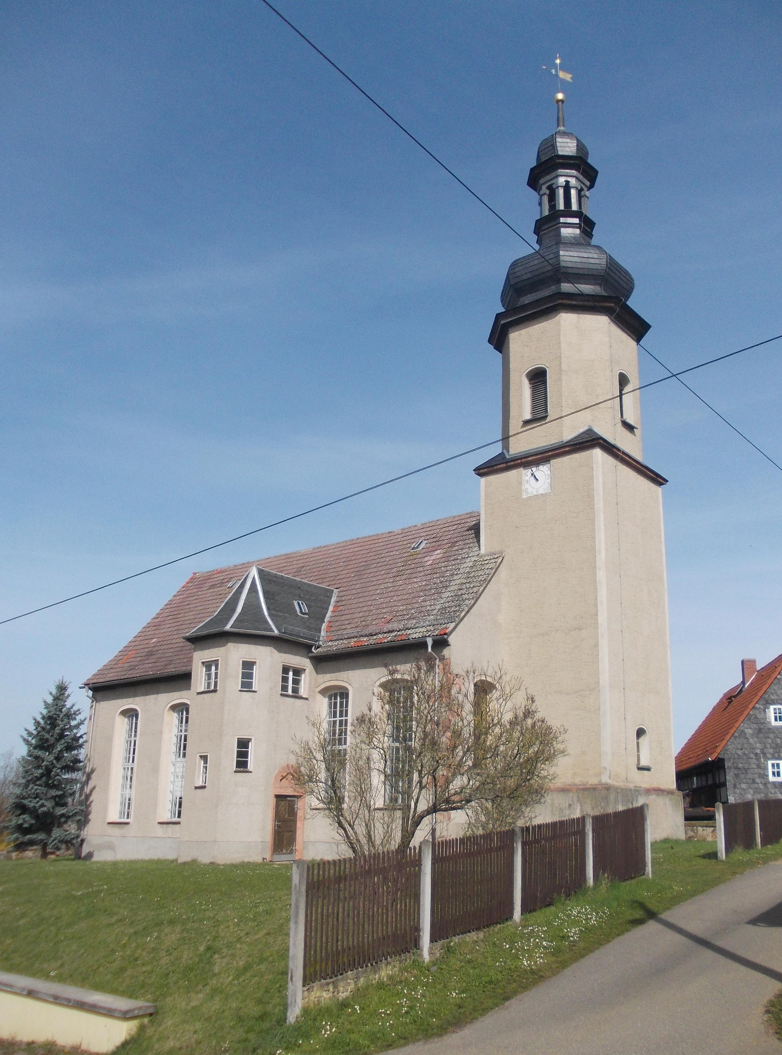 Gieba church (Nobitz, Altenburger Land district, Thuringia)